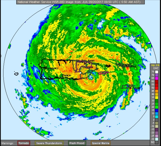 The radar image was the last image from the San Juan radar before it went out in the morning of September 20.